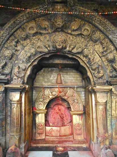 सुर्यविनायक मन्दिर